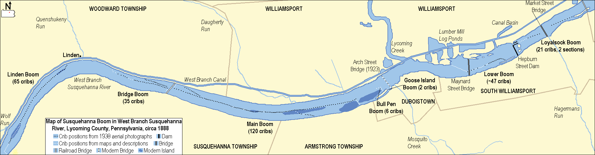 Map of the Susquehanna Boom in the West Branch Susquehanna River in Lycoming County, Pennsylvania, United States, circa 1888